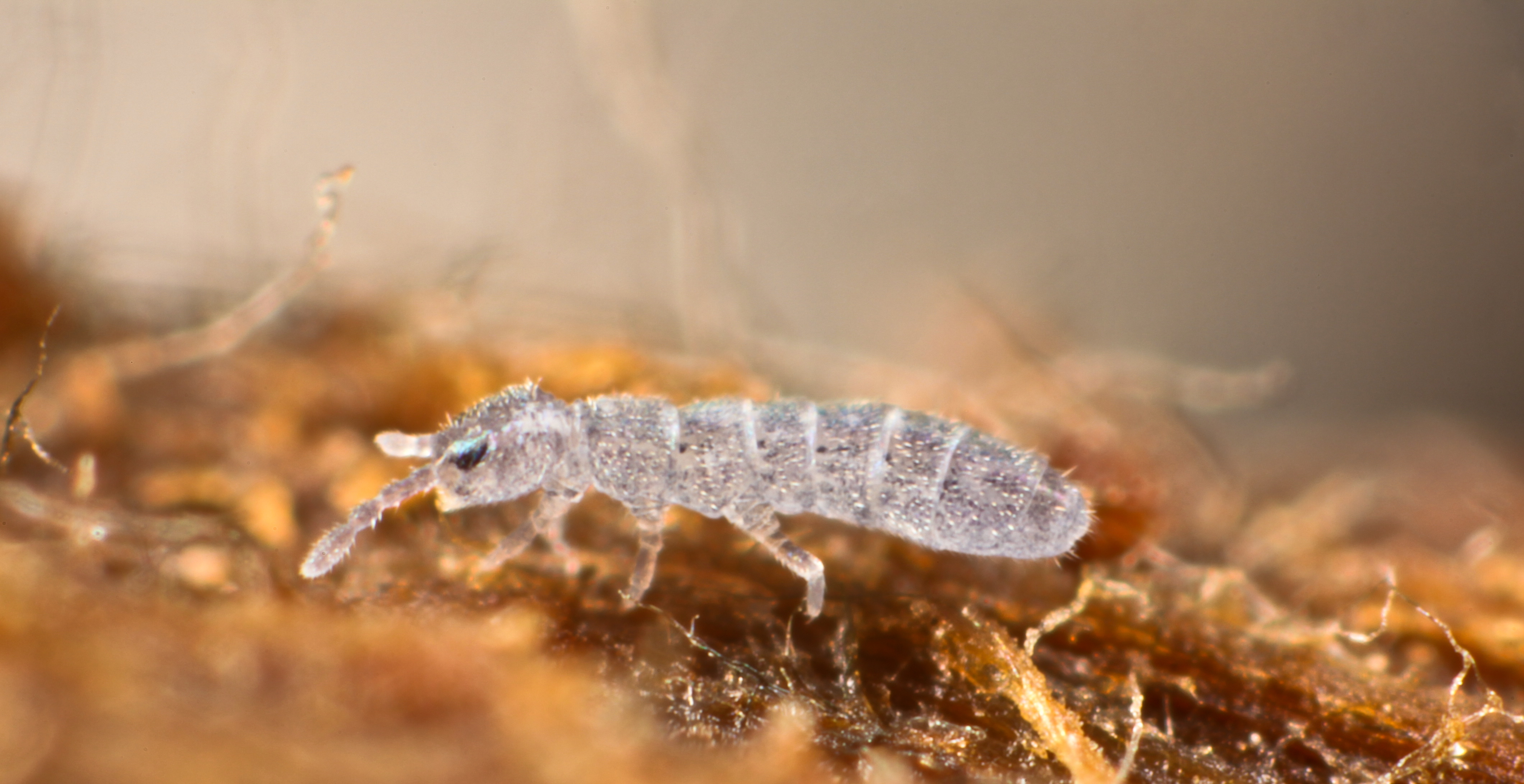 Proisotoma minuta from Isle of Gigha, Scotland, United Kingdom Original description on Flickr: Another find in Achemore Gardens on the Isle of Gigha. This is the first decent shot I've done of these chaps.